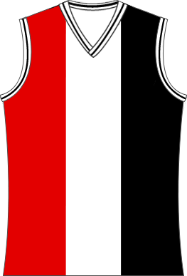 St Kilda Jumper in 2002.png